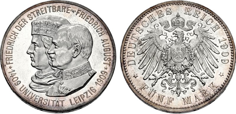 GERMANY, Sachsen (Königreich). Friedrich August III. 1904-1918. AR 5 Mark (38mm, 27.77 g, 12h). Commemorating the Quincentennial of the University of Liepzig. Muldenhütten mint. Dually dated 1409 and 1909. Jugate busts of Friedrich August and Johann Friedrich / Coat-of-arms within collar; all on crowned imperial eagle. AKS 188; KM 126; Davenport 906. AU, some hairlines.